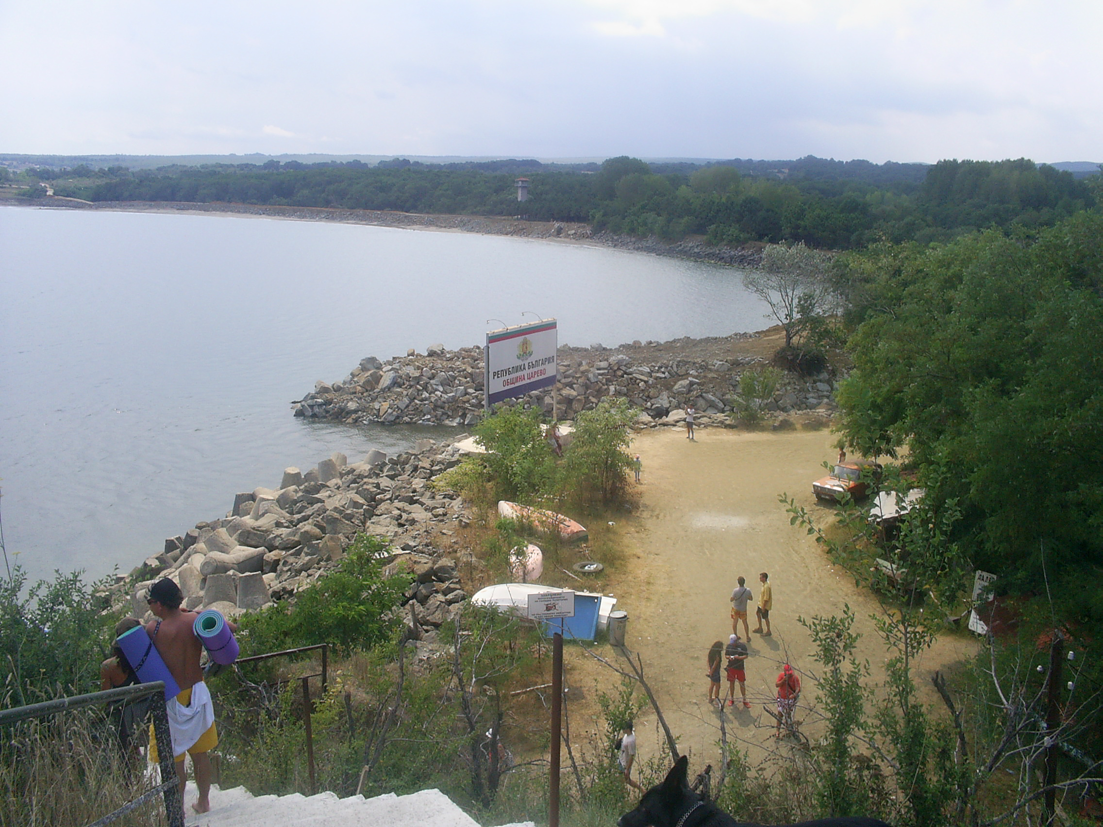 Mouth of Rezovska reka on Bulgarian-Turkish frontier